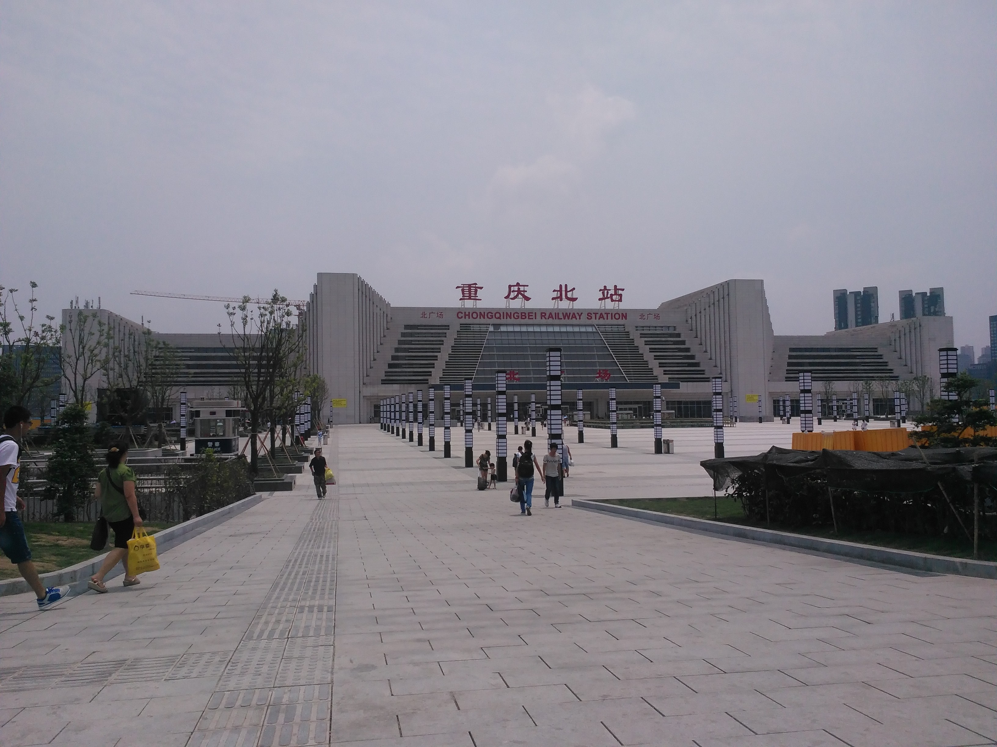 Chongqingbei Railway Station North Square